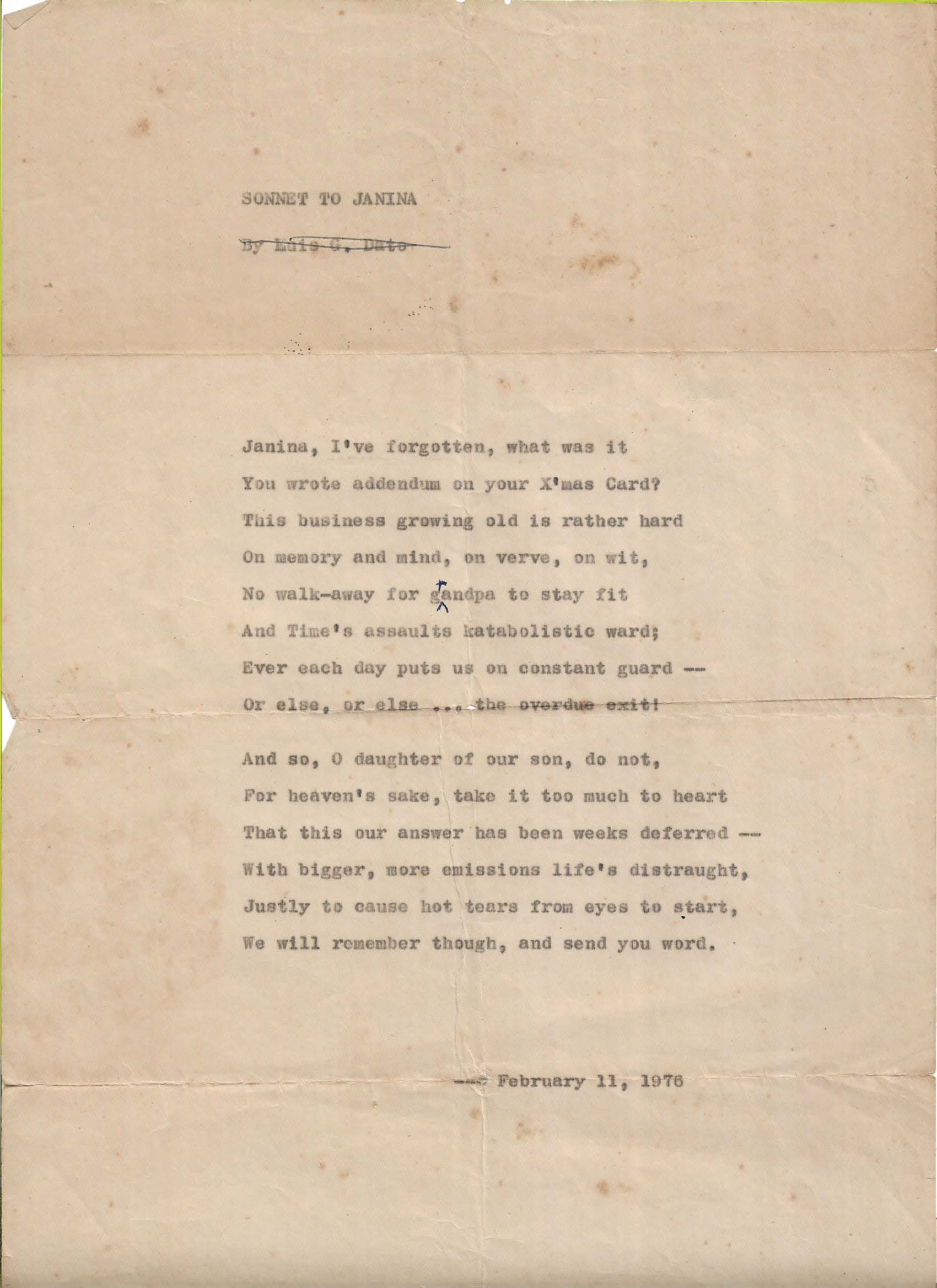 Original poem to Janina Dato